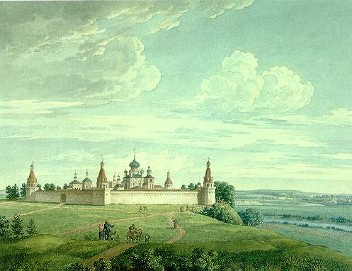 I.A. Lavrov Title